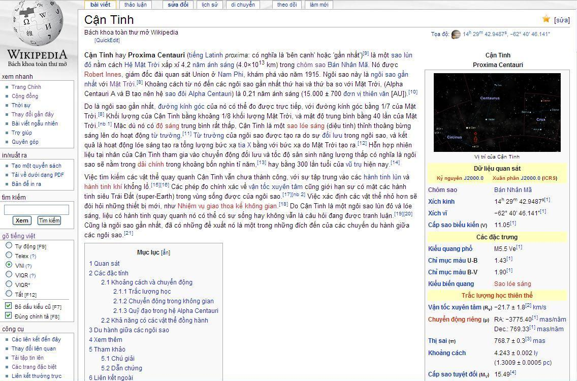 Vietnamese Wikipedia's "Cận Tinh" page Screenshot